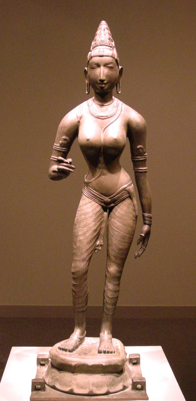 Queen Sembiyan Mahadevi as goddess Parvati, India, state of Tamil Nadu, Chola period, ca. 998 Bronze; height 92.1 cm (36 1/4 in.), Purchase: F1929.84, Freer Gallery, Washington D.C. by Kosi Gramatikoff